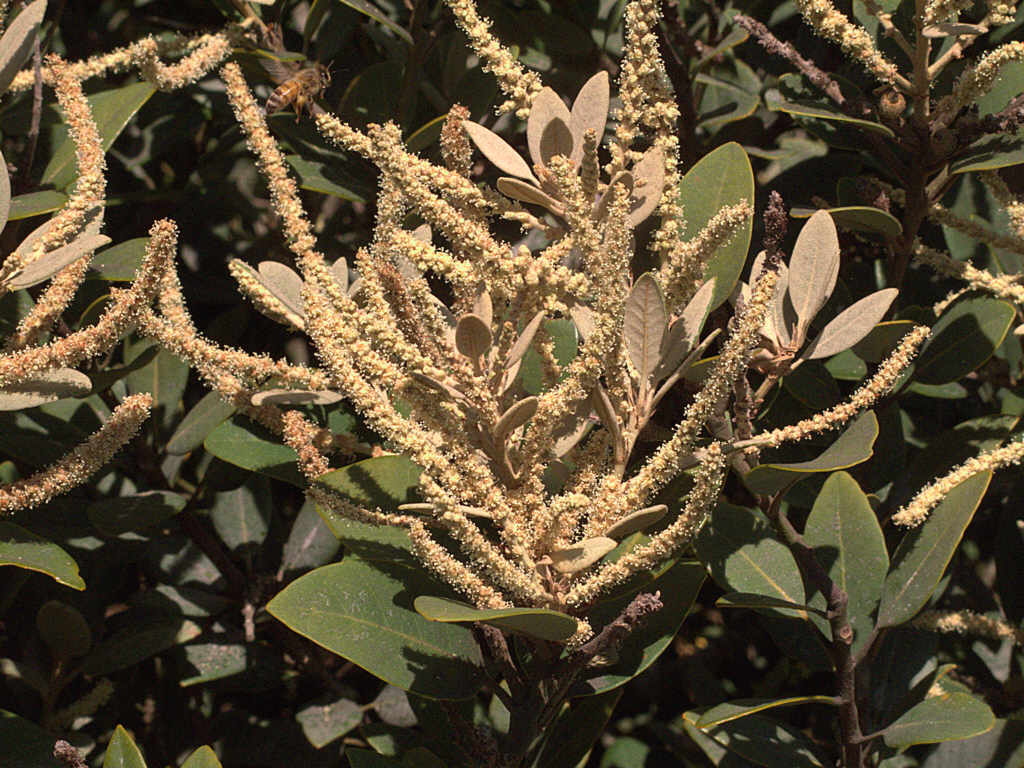 Notholithocarpus densiflorus var. echinoides—dwarf tanoak. "Tanoak is more susceptible to damage and death from Phytophthora ramorum, the fungus-like water mold causing sudden oak death disease, than any other known North American plant. Moist, mixed-evergreen and redwood/tanoak forests are the water mold's primary habitat in North America. Phytophthora ramorum infection is nearly always fatal to tanoaks, although mature trees may take several years to die."—USDA Forest Service Fire Effects Information System (FEIS). Photographed at the Regional Parks Botanic Garden in Tilden Regional Park near Berkeley, CA.